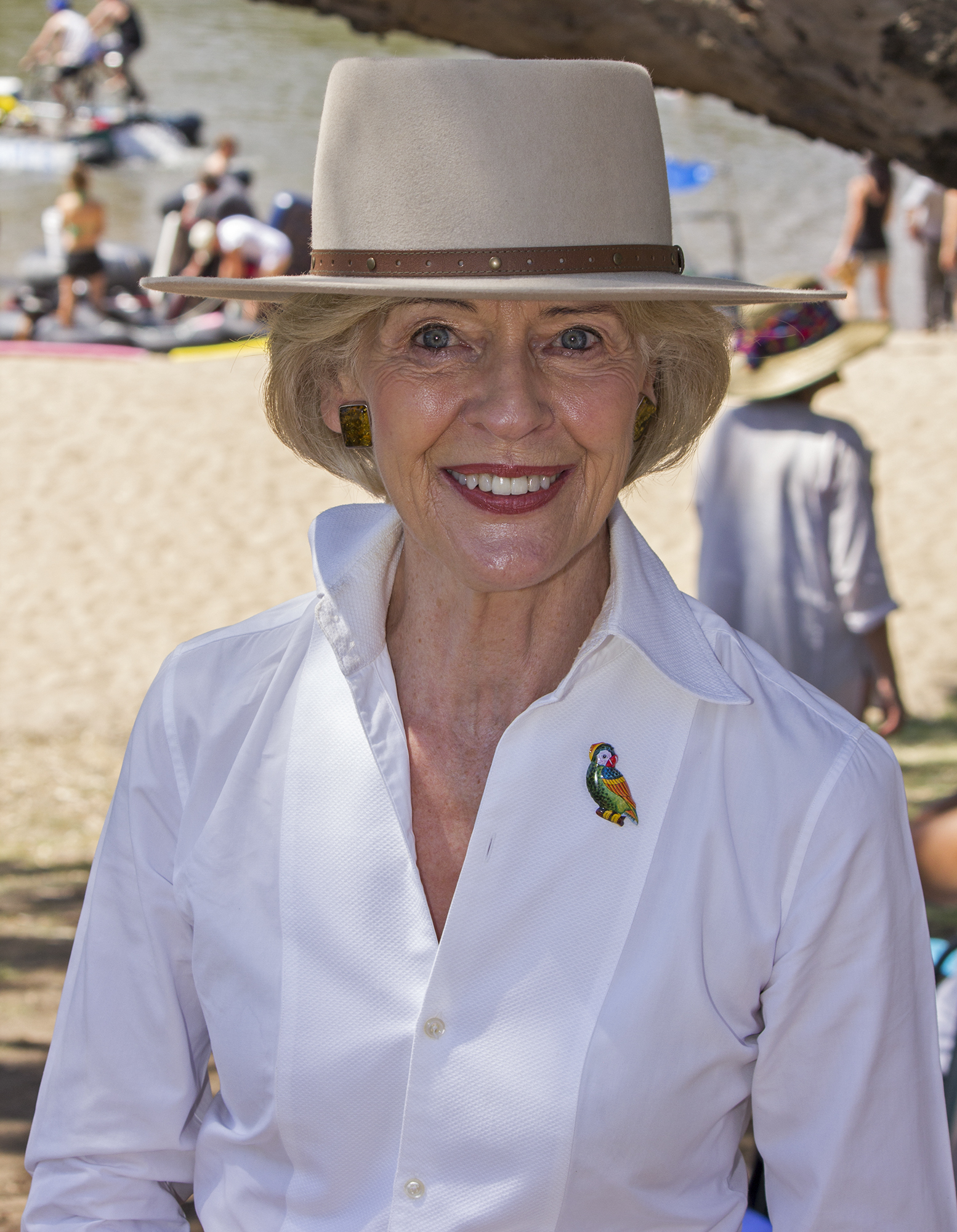 Governor-General of Australia, Quentin Bryce.